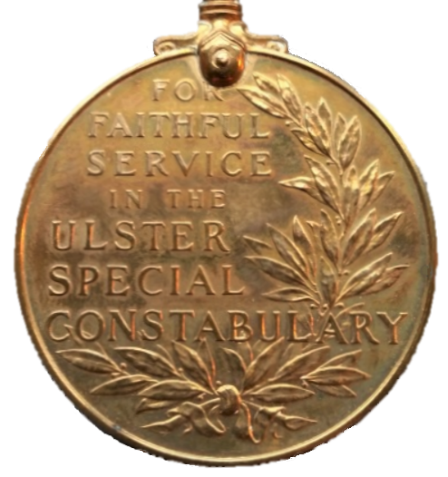 British medal for long service in the Ulster Special Constabulary